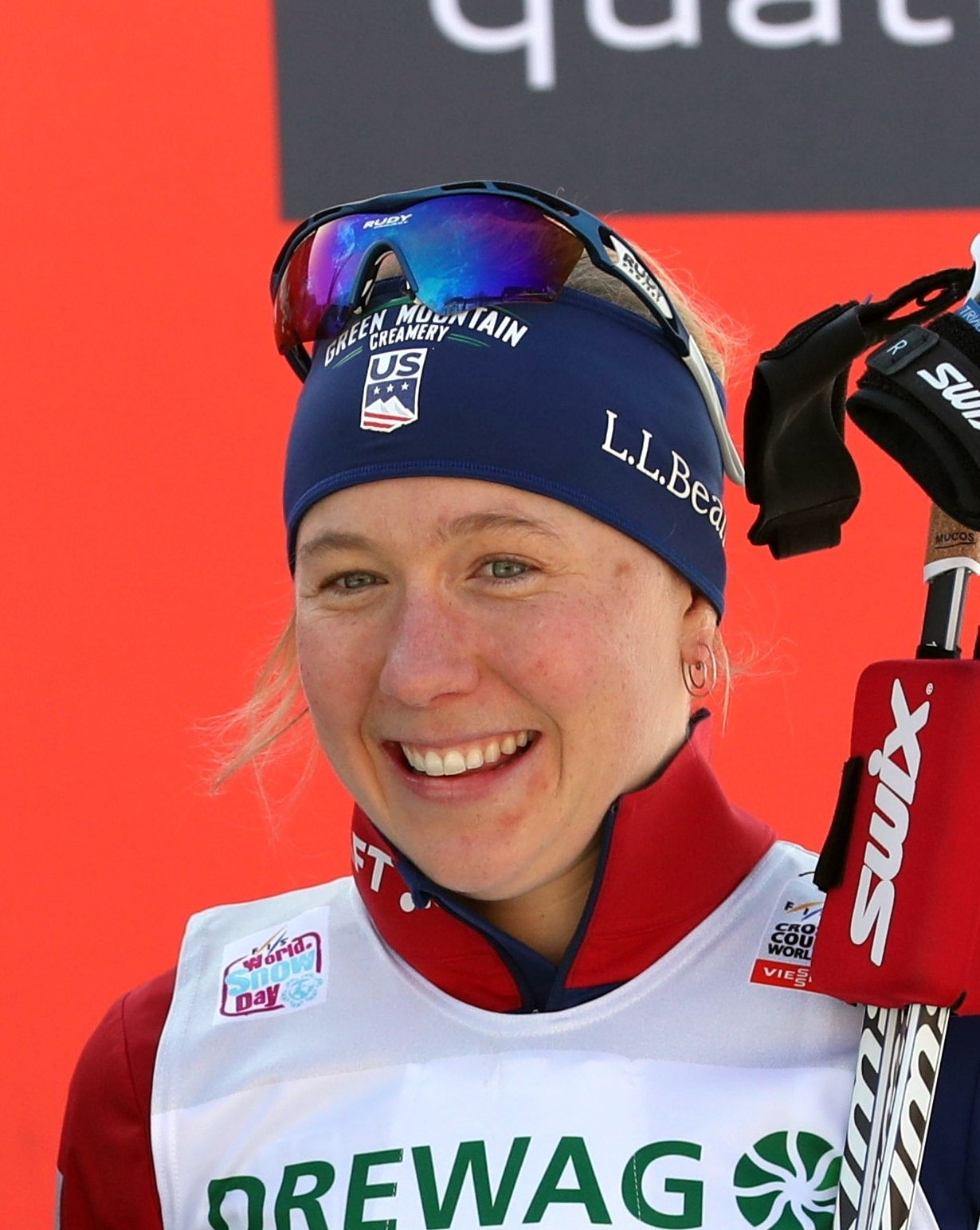 Award Ceremonies of the Team Sprint at the FIS Cross-Country World Cup Dresden 2018: Sophie Caldwell, Ida Sargent